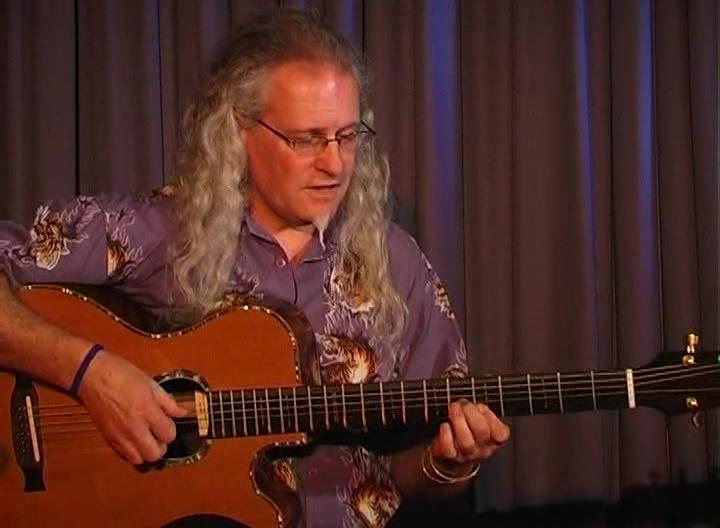 Tony Cox performing live at the Grahamstown National Arts Festival, South Africa, June 2005